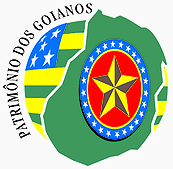 Coat of arms of Military Police - Brazil.